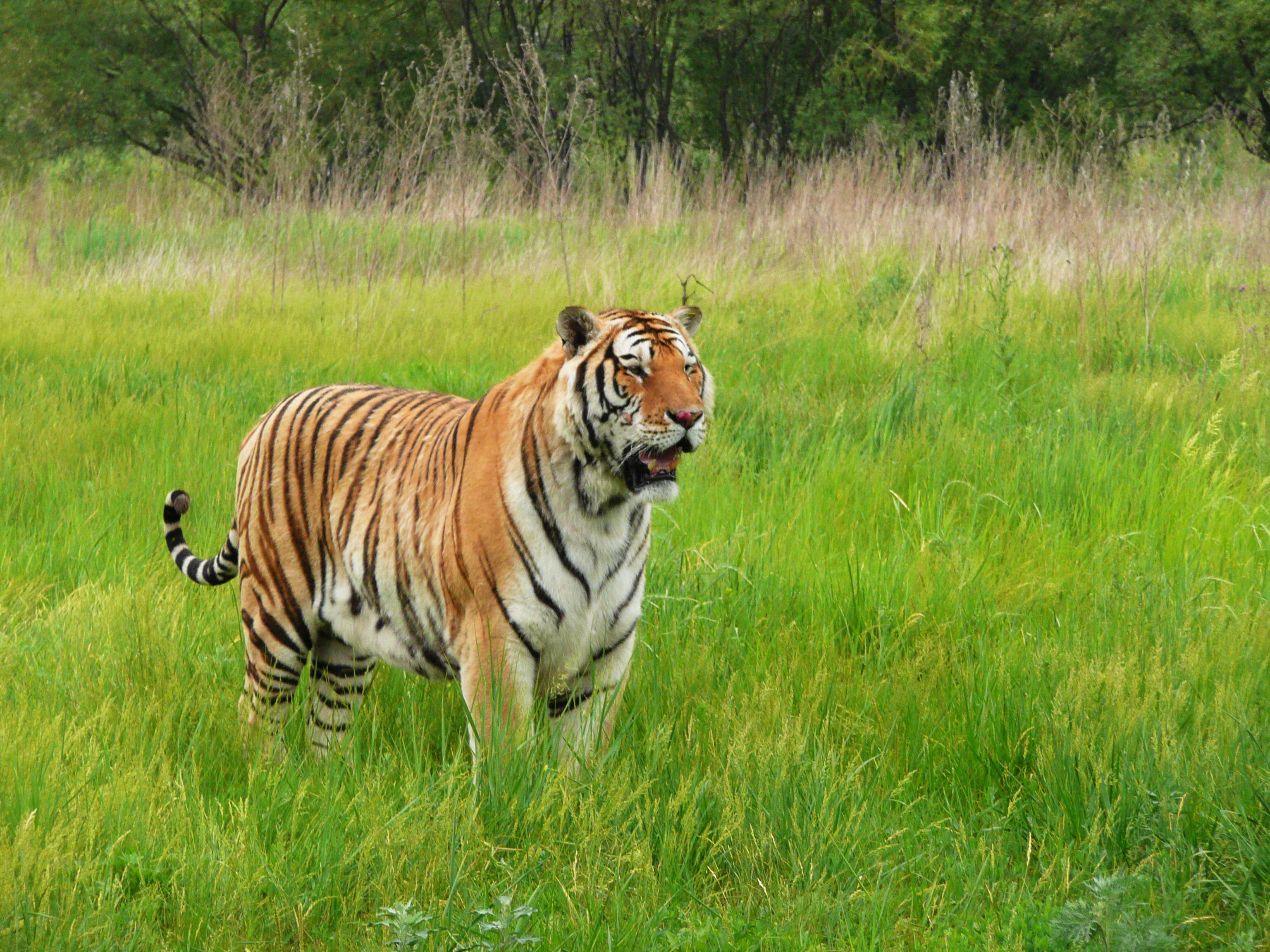 Panthera tigris altaica 東北虎